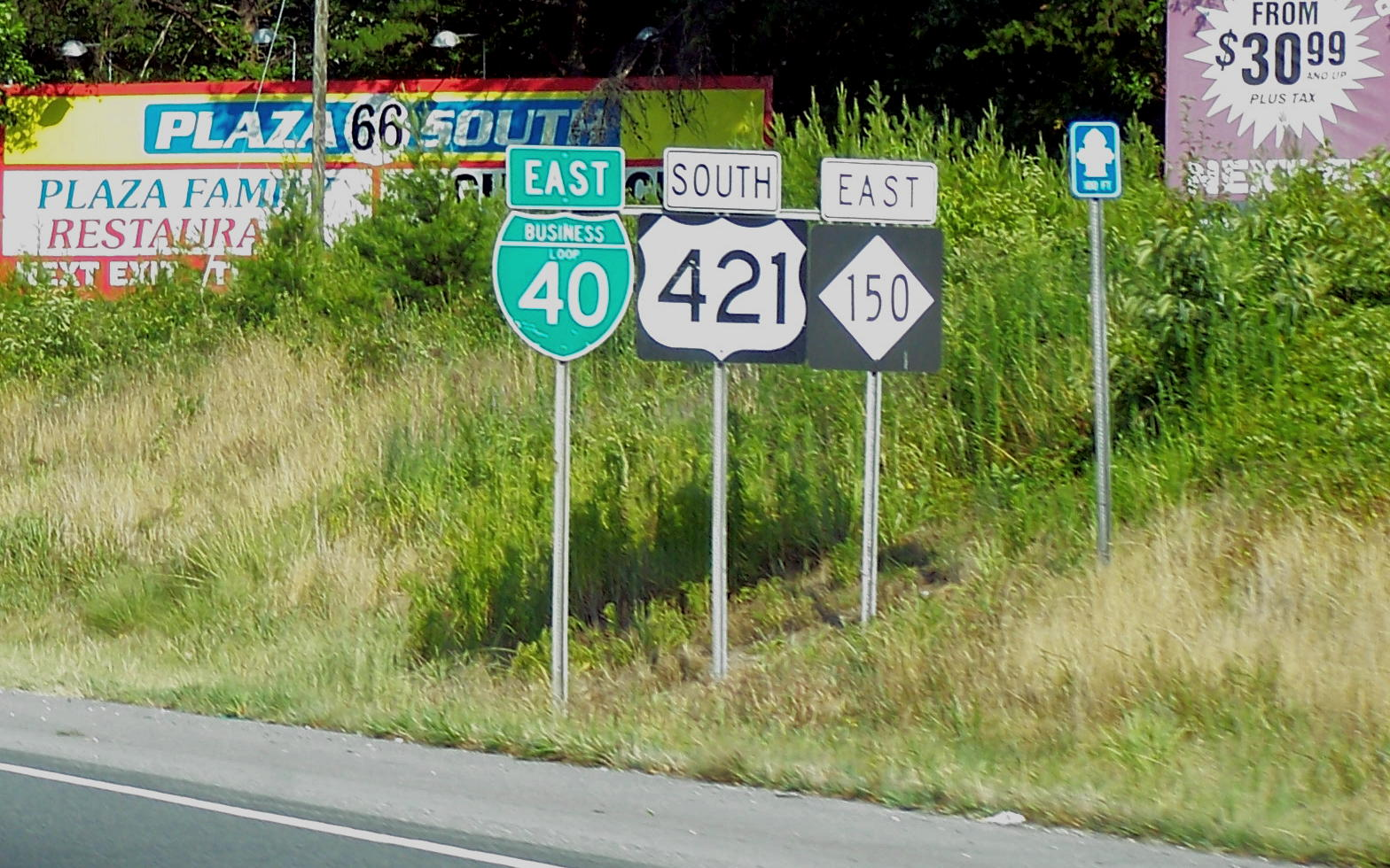 Signs for Interstate 40 Business loop, US 421 and NC 150 near Kernersville, NC.